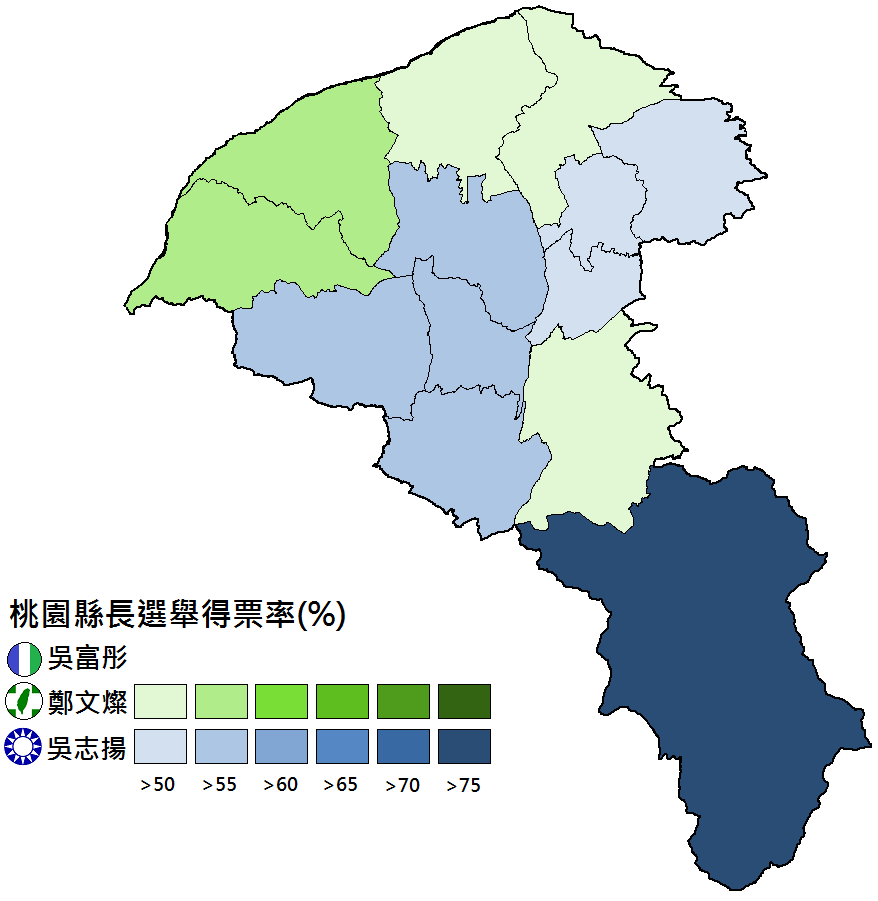 Taoyuan magistrate election 2009